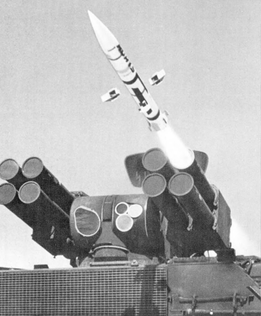 ADATS launch